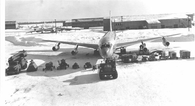 KC-135A of the 42d Bombardment Wing and associated ground equipment at Loring Air Force Base, Maine in the winter